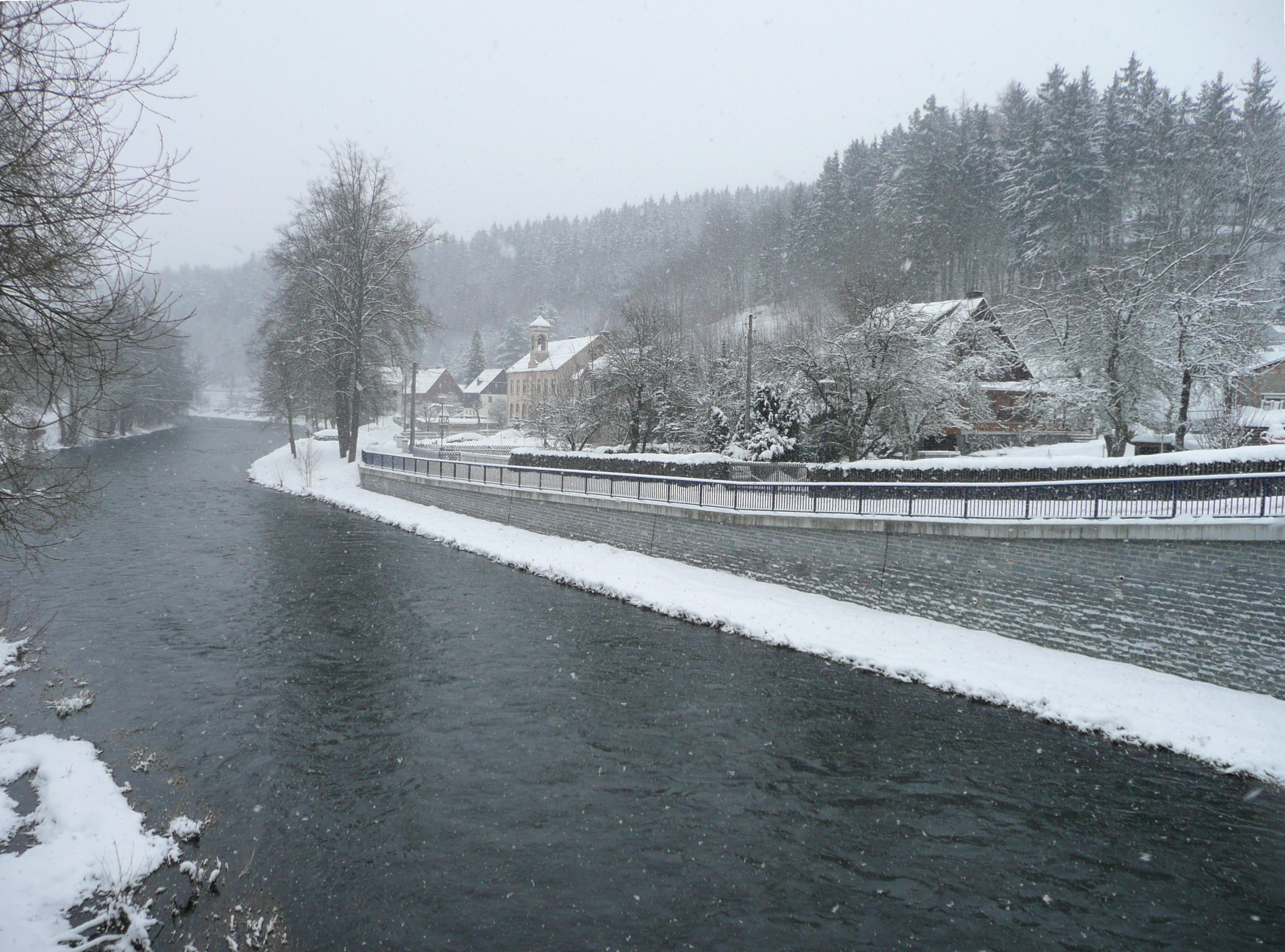 View onto a part of Hopfgarten (Großolbersdorf) at the right waterside of the river Zschopau